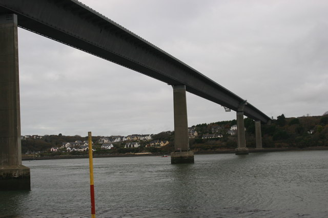 Cleddau Bridge By the Ferry Inn